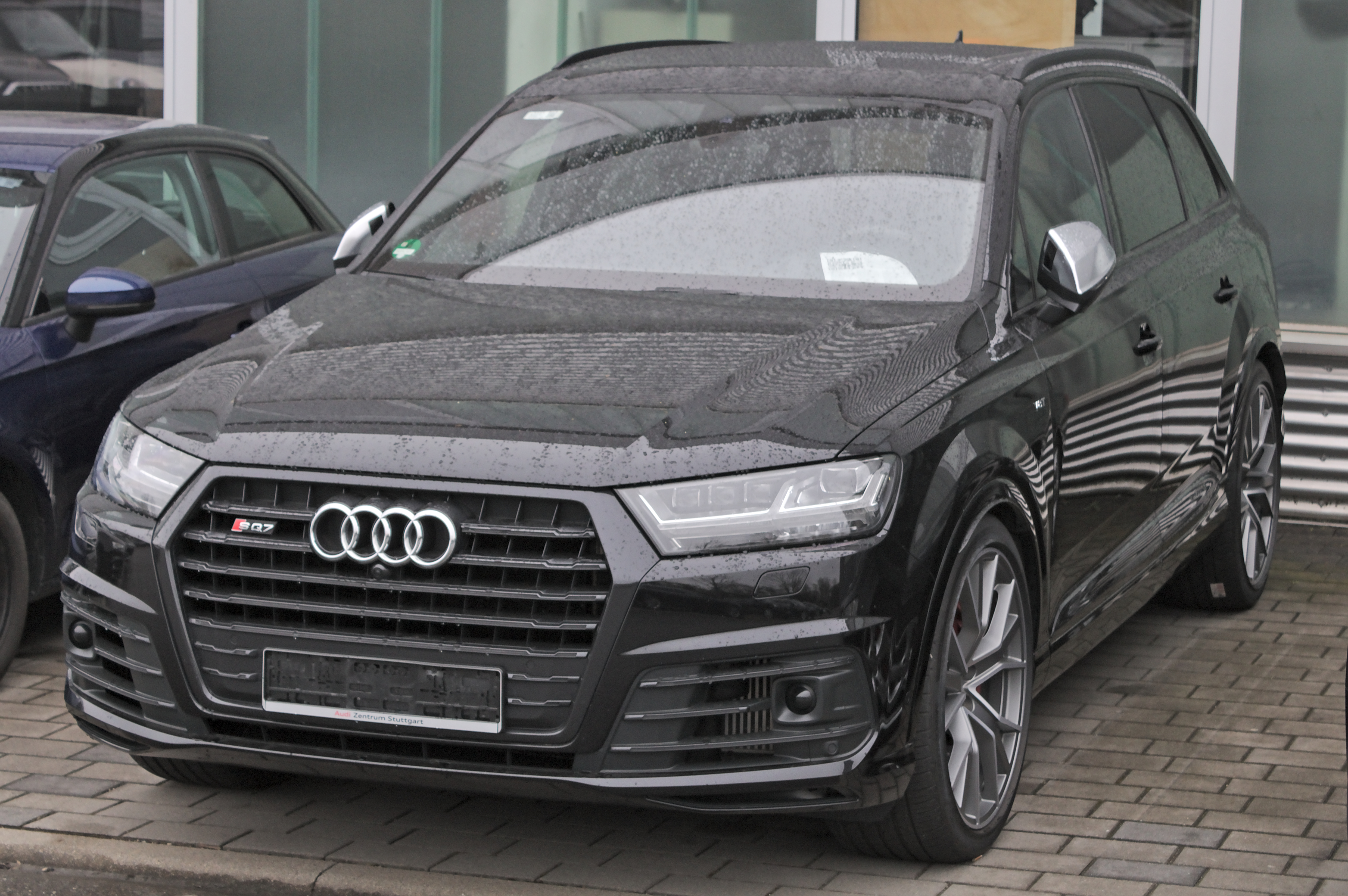 Audi_SQ7 in Stuttgart-Vaihingen